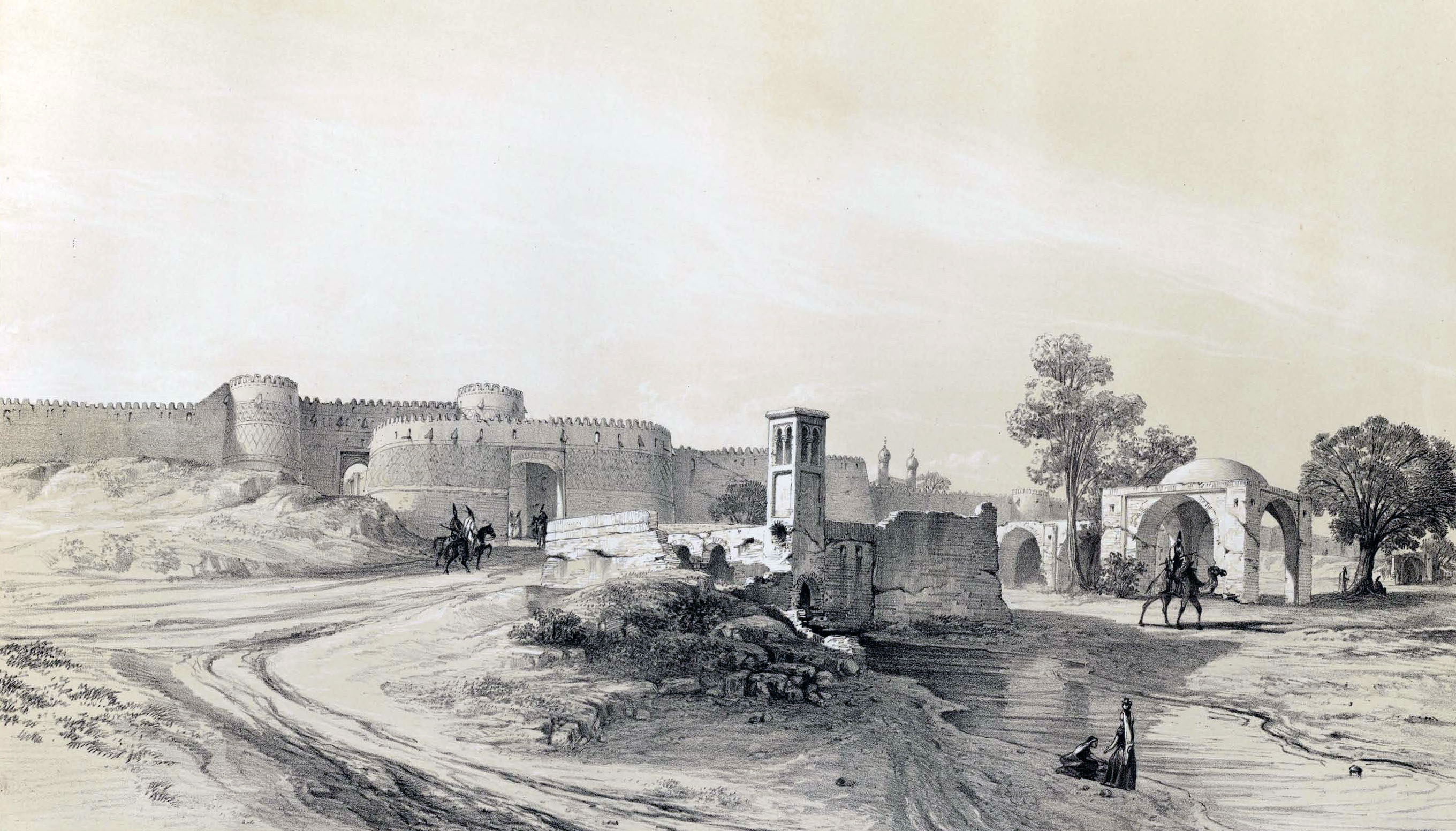 Shemran gate , Tehran